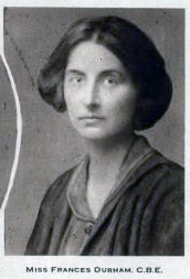 Frances Hermia Durham c1918